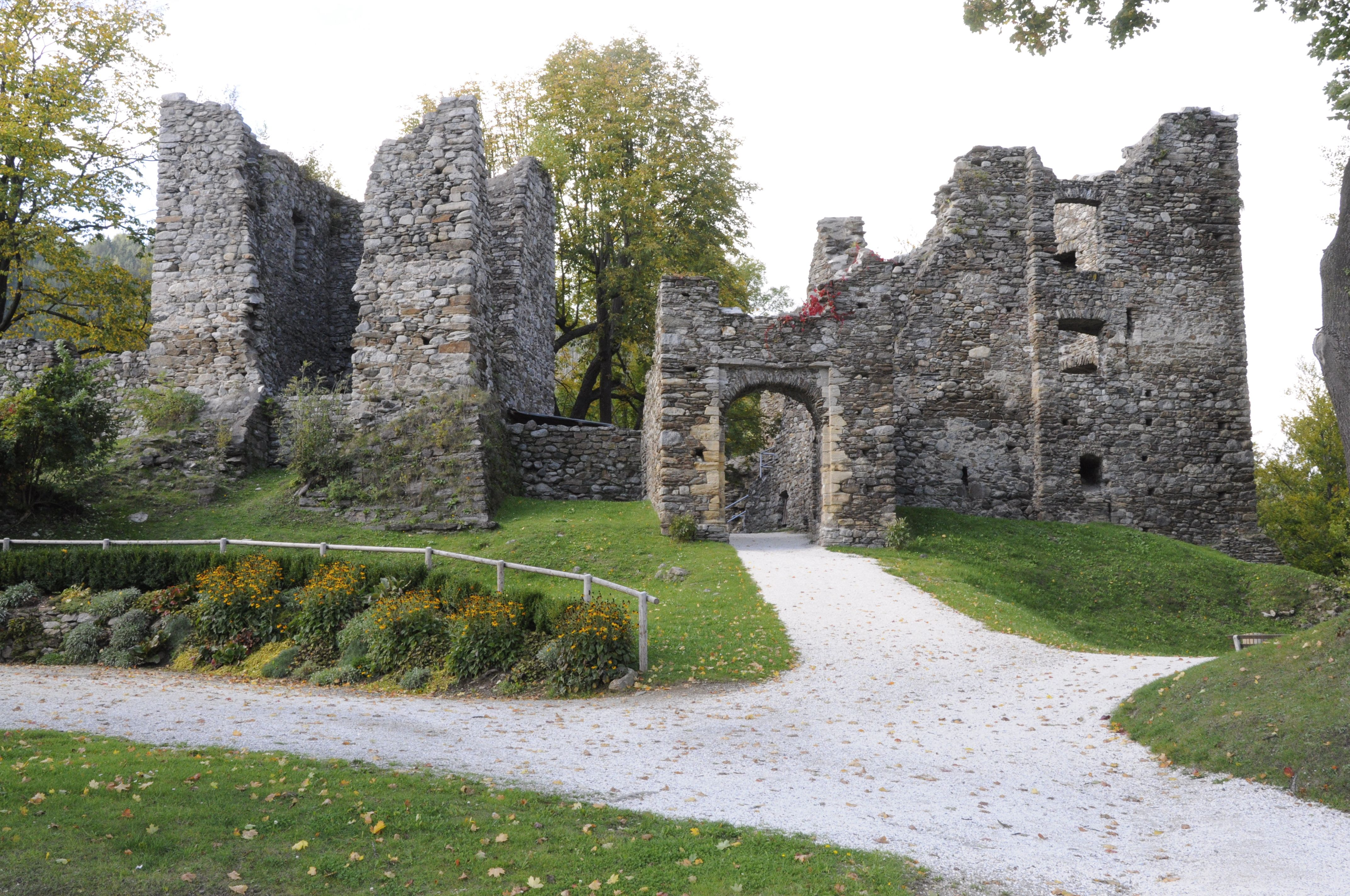 Castle ruin Gomarn on the Schlossberg of Bad Sankt Leonhard, municipality Bad Sankt Leonhard, district Wolfsberg, Carinthia / Austria / EU